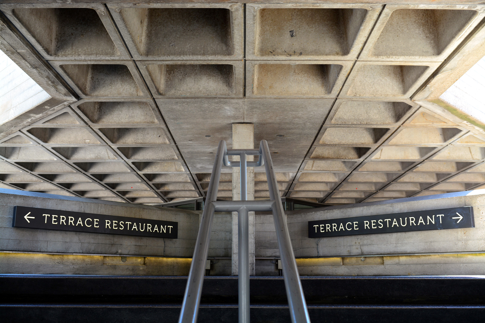 Steps, under deep-coffered concrete soffit, to Terrace Restaurant